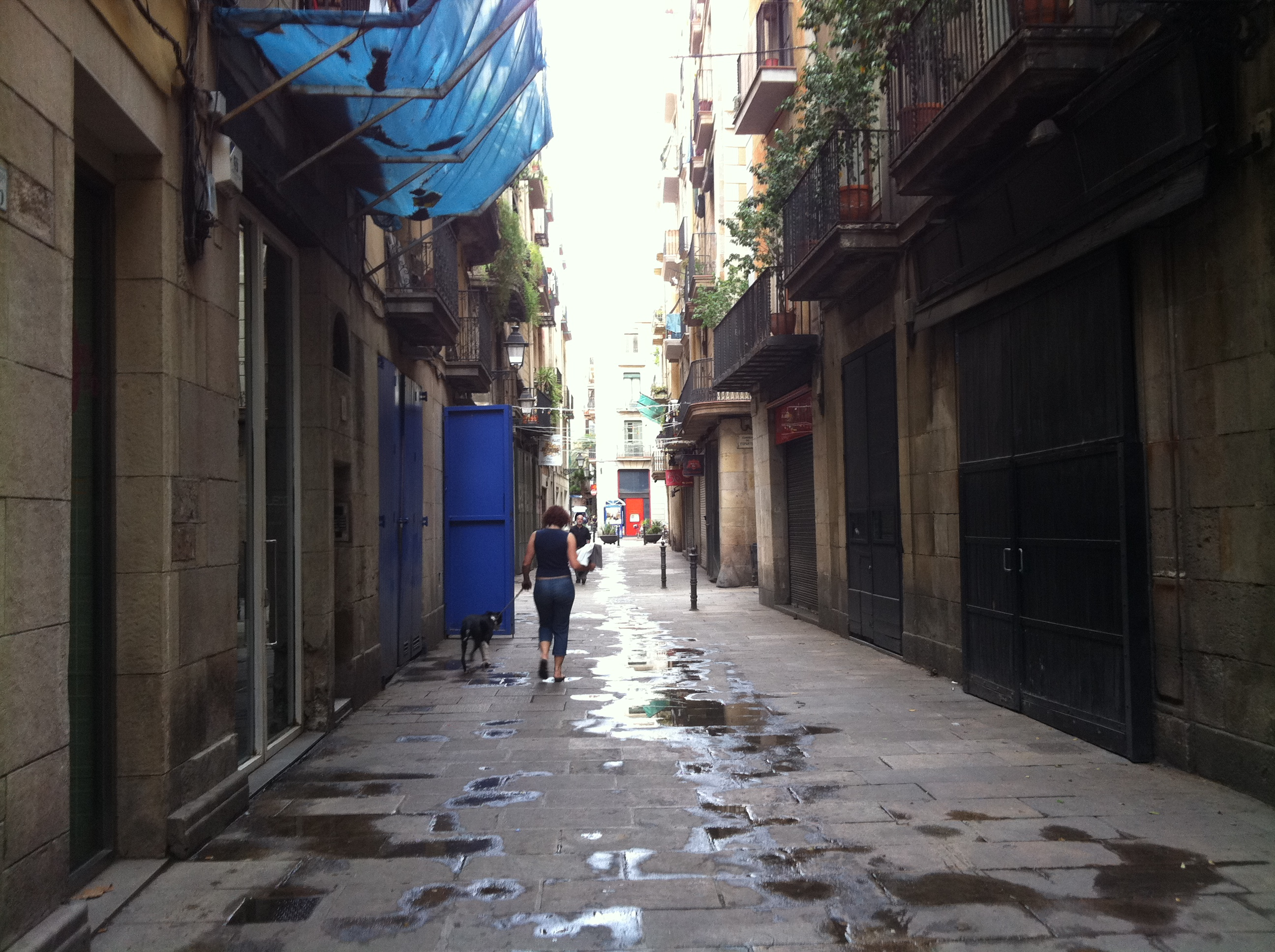 Street of the neighbourhood of La Ribera in Barcelona